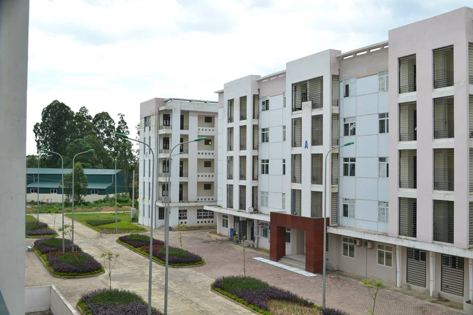 Cơ sở đào tạo Vĩnh Yên